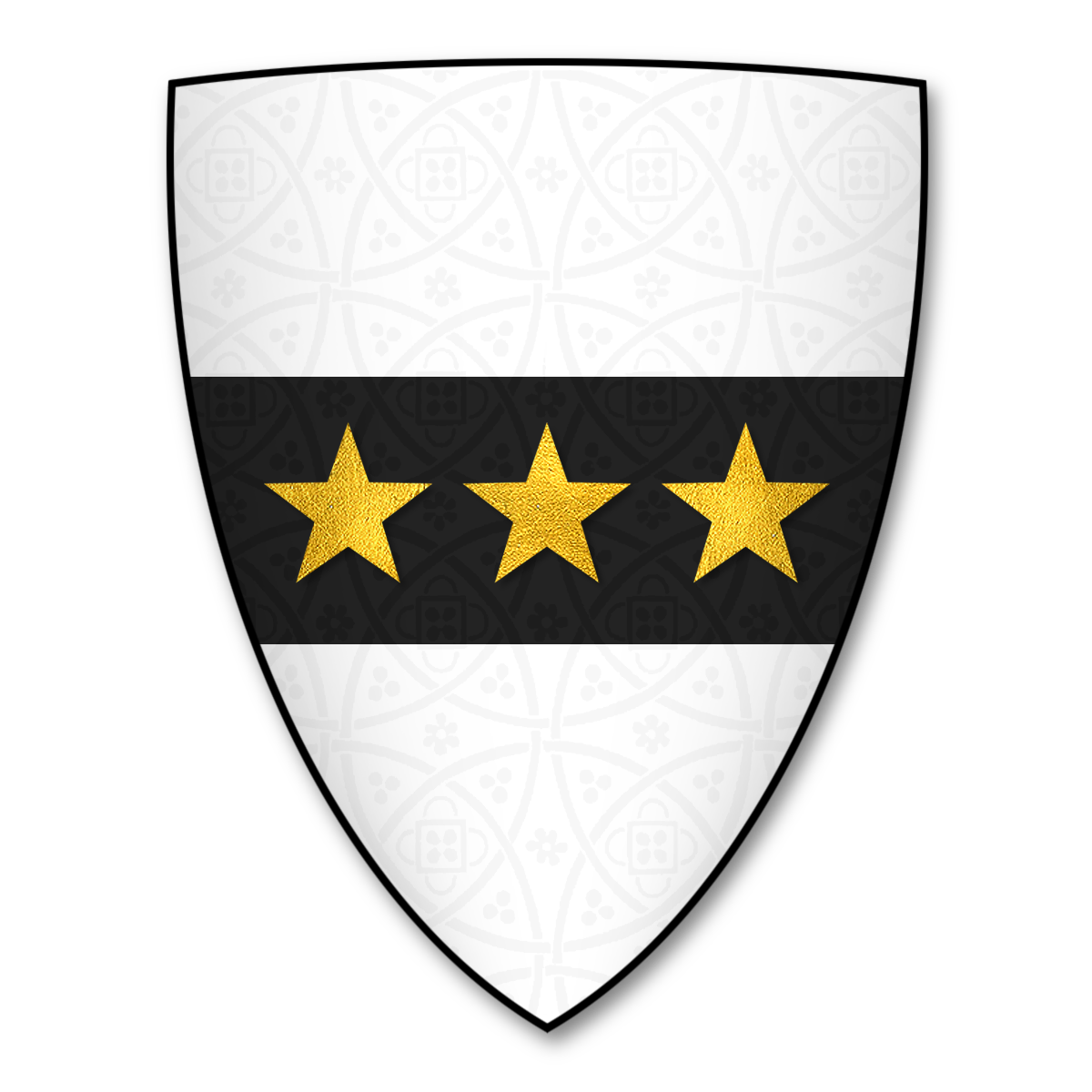 Armorial Bearings of the CLIVE family of Wormbridge and St. Devereux, Herefordshire. A cadet of the ancient house of Clyve, of Styche, Earls of Powis. Arms: Argent, on a fess sable three mullets or. Crest: On a mount vert, a griffin with wings endorsed argent, ducally collared gules. Strong, George (1848) The Heraldry of Herefordshire: Being a Collection of the Armorial Bearings of Families Which Have Been Seated in the County at Various Periods Down to the Present Time., London: Churton Press